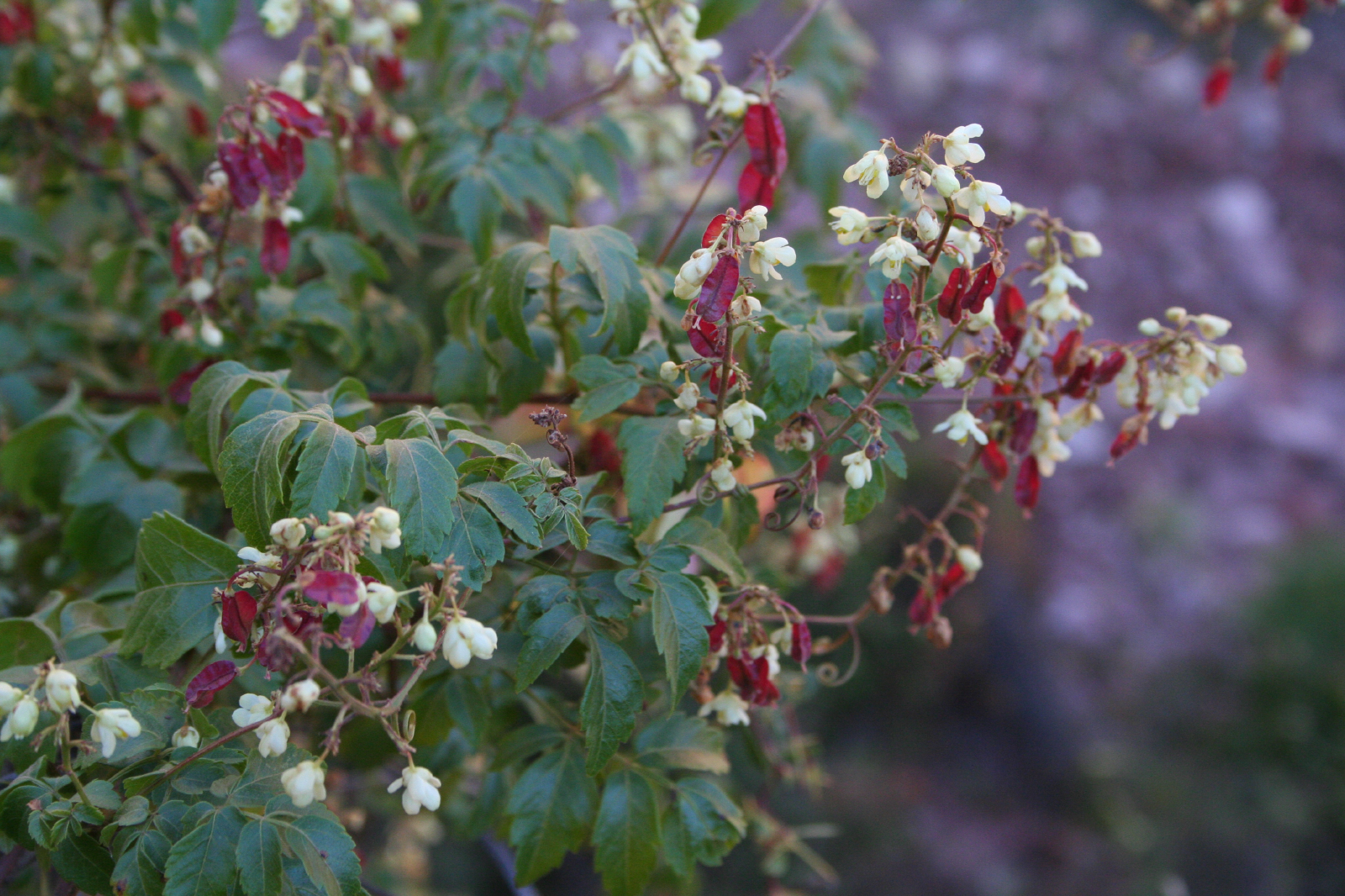 A twiny, viny scrambler overtaking shrubs near the Maragua waterfalls outside Sucre, Bolivia.